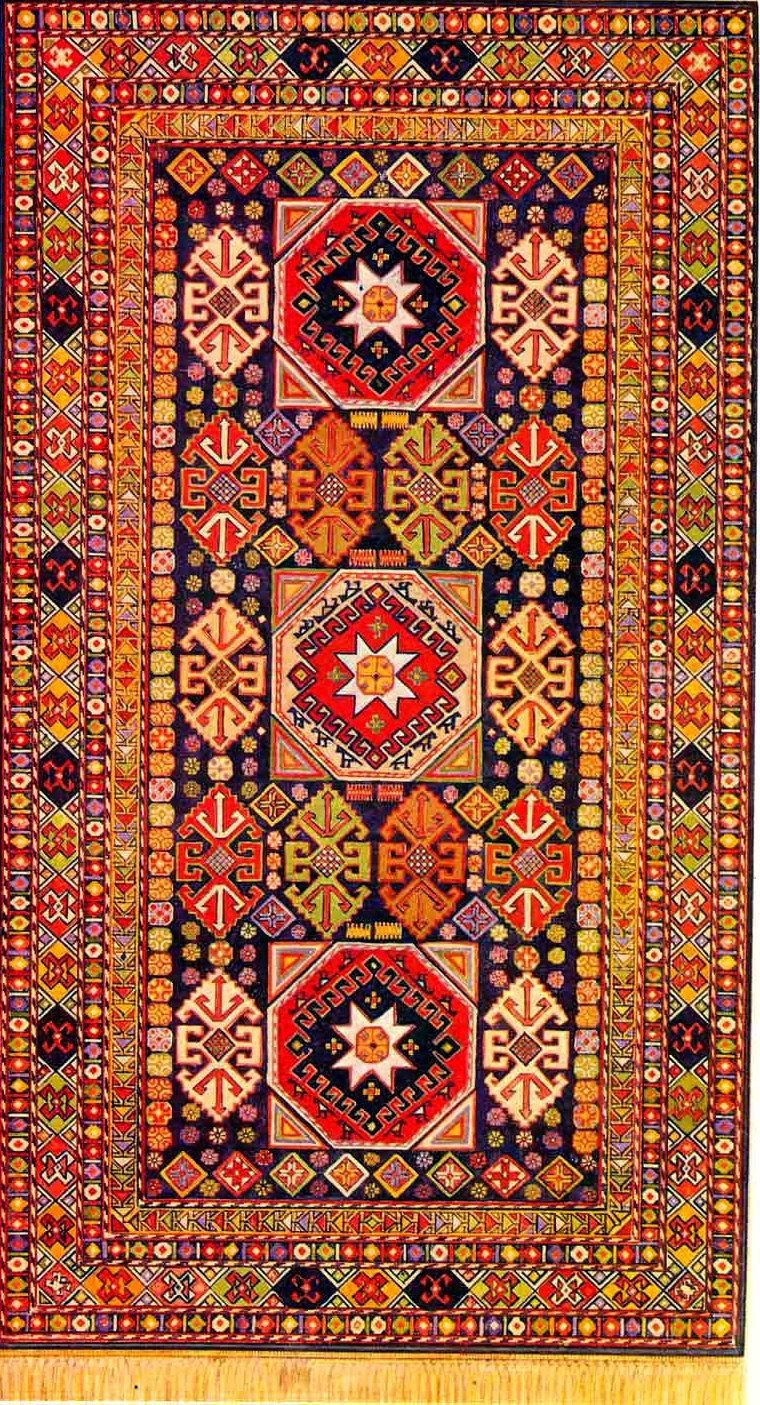 Bijo rug, Shirvan school, XIX c.